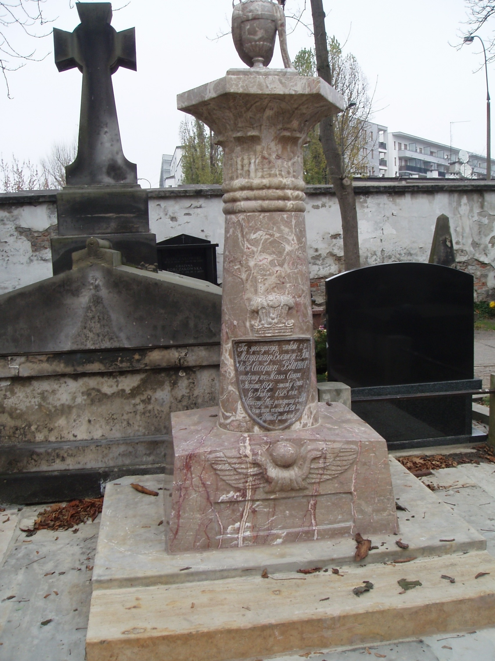 Blumer family grave, Powązki, Warsaw